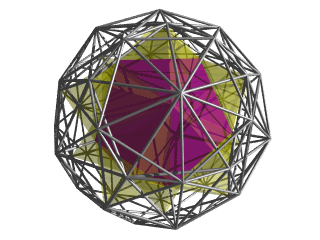 Vertex-first perspective projection of the 600-cell into 3-dimensional space, with the 20 cells surrounding the nearest vertex rendered in solid magenta, the cells adjoining these 20 cells in transparent yellow, and the remaining cells on the near side of the 600-cell (facing the 4D viewpoint) in edge outlines. Back-faces have been culled for clarity's sake.